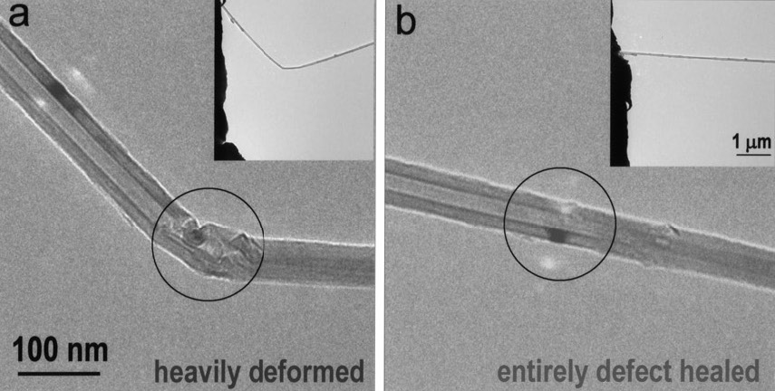 TEM images of (a) a multi-walled BN nanotube bent inside; and (b) the same tube after the release of pressure. The insets show the low-magnification images of the tube as guide to the eye. The circles mark the area of interest. Note that in spite of the severe corrugations of the tube walls in the bent state, the tube completely restores its straight shape after the load release